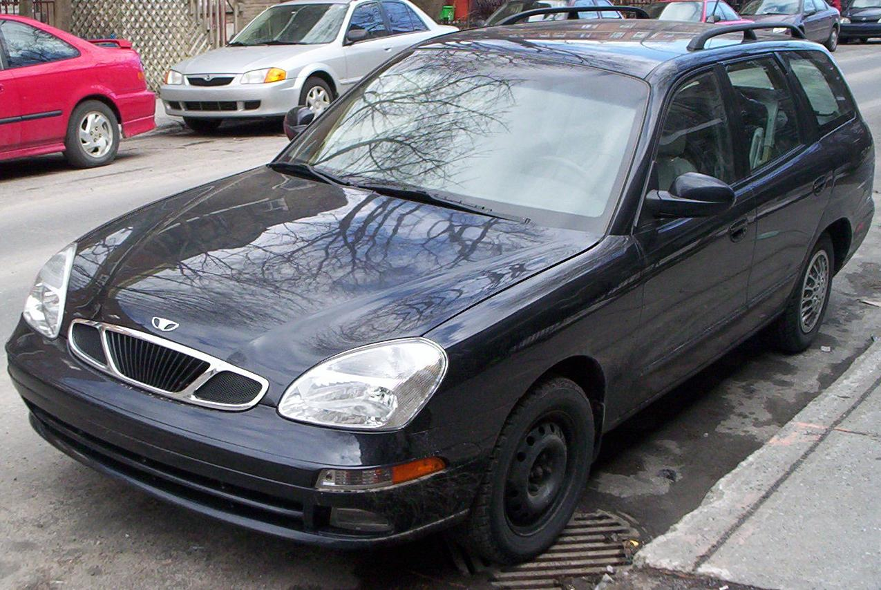 1999-2002 Daewoo Nubira photographed in Montreal, Quebec, Canada.